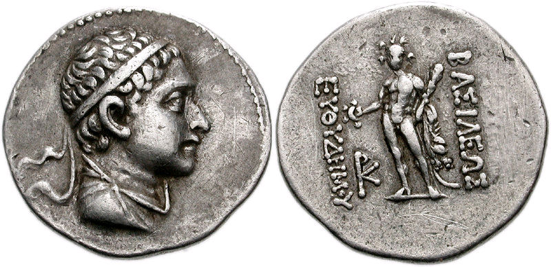 Euthydemos II. Circa 185-180 BC